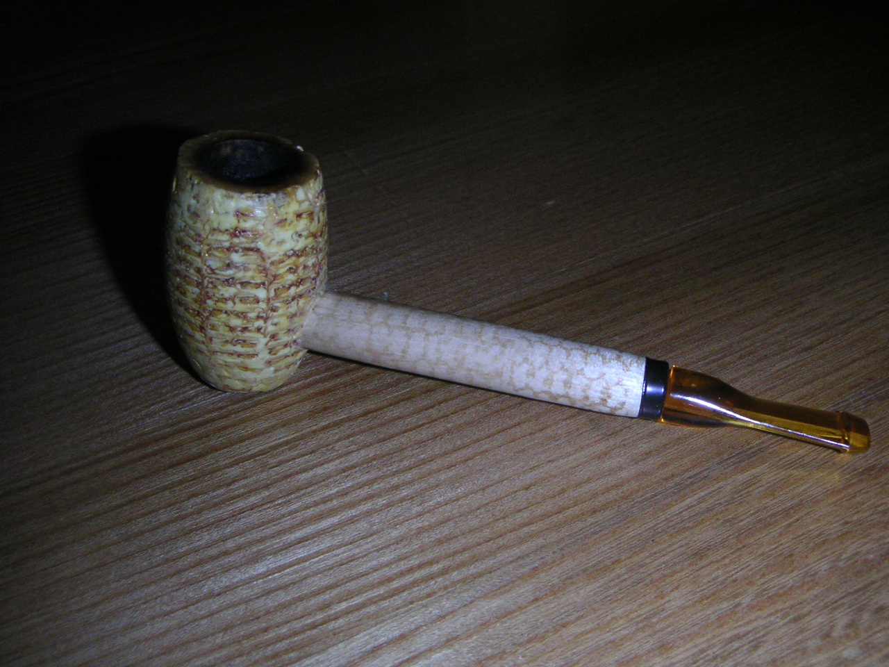 Corn Cob Smoking Pipe